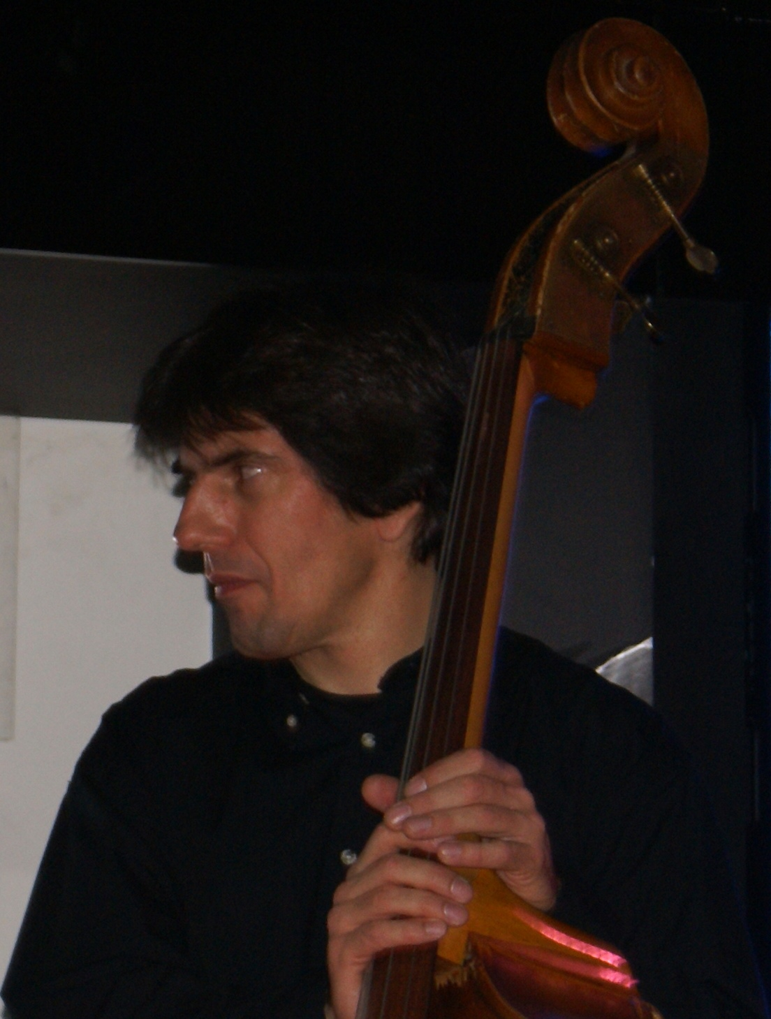 Philippe Aerts in Moscow, Nov 2007.